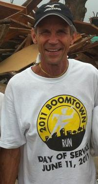 Jeff Galloway at the "Boomtown Day of Service", 6/11/11, held in place of a scheduled 1/2 marathon in Joplin, Missouri.